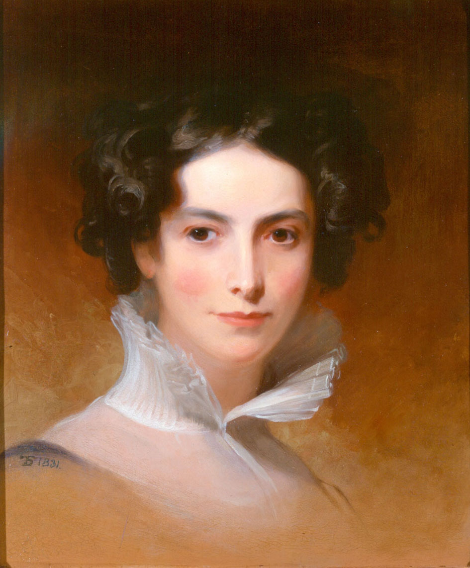 Painting of Rebecca Gratz by Thomas Sully, oil on panel, 51 x 43 cm.